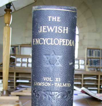 Jerusalem, Rockefeller Museum, Jewish Encyclopedia IMHO The designer of the cover of the Jewish Encyclopedia used the Star of David here to create the formula: Star of David = Jewish. I took this photo in the Rockefeler Museum in Jerusalem , a very impressive background for such scholarly items. Jerusalem